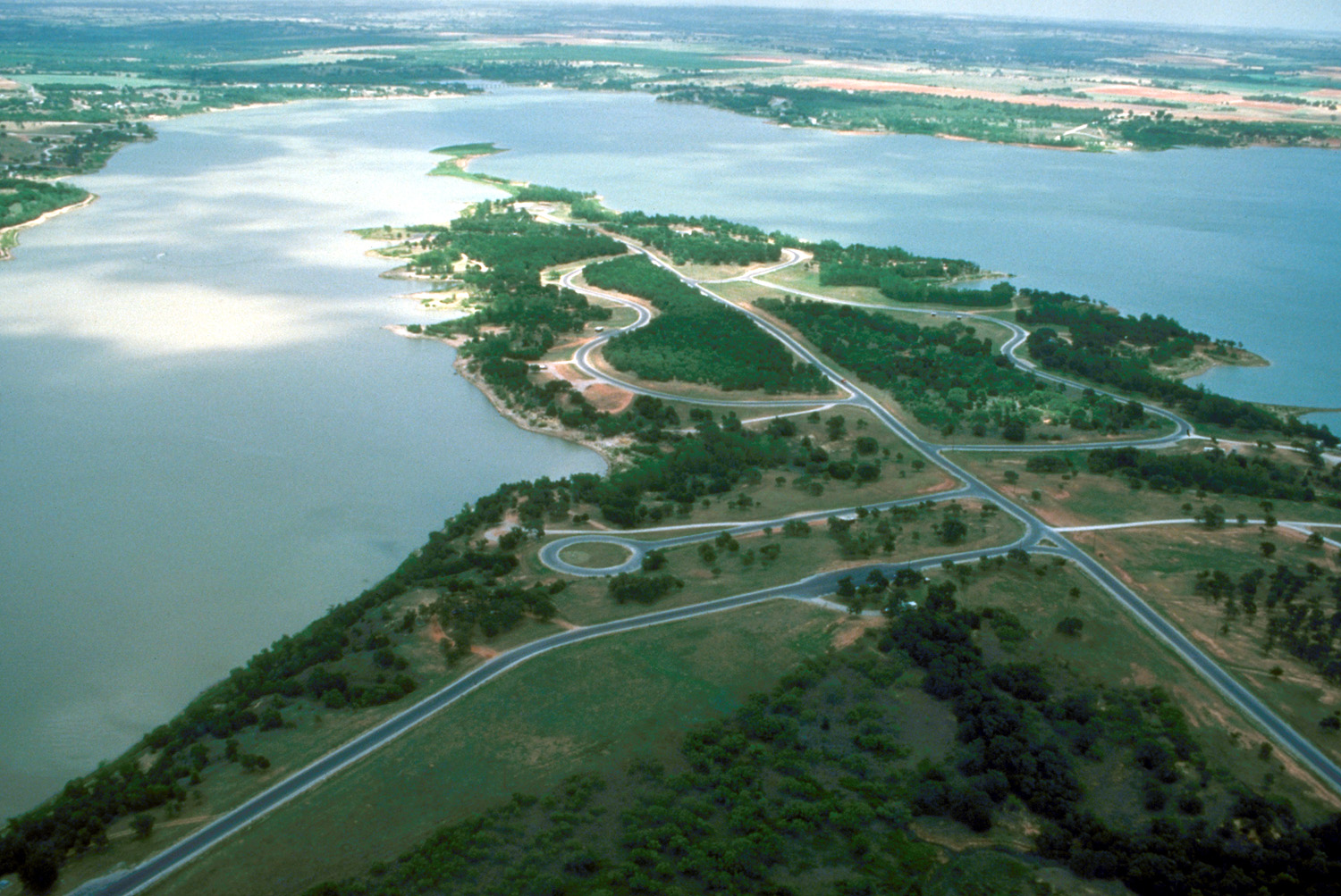 Aerial view of Proctor Lake on the Leon River in Comanche County, Texas, USA. The lake is impounded by Proctor Dam, located approximately 10 miles (16 km) southwest of Dublin, Texas. The U.S. Army Corps of Engineers constructed the dam in 1963 for flood control and water supply. A bridge carrying county road 1476 crosses the lake in the far distance. View is to the east. Coordinates: 31°58′54.74″N 98°29′23.18″W / 31.9818722°N 98.4897722°W